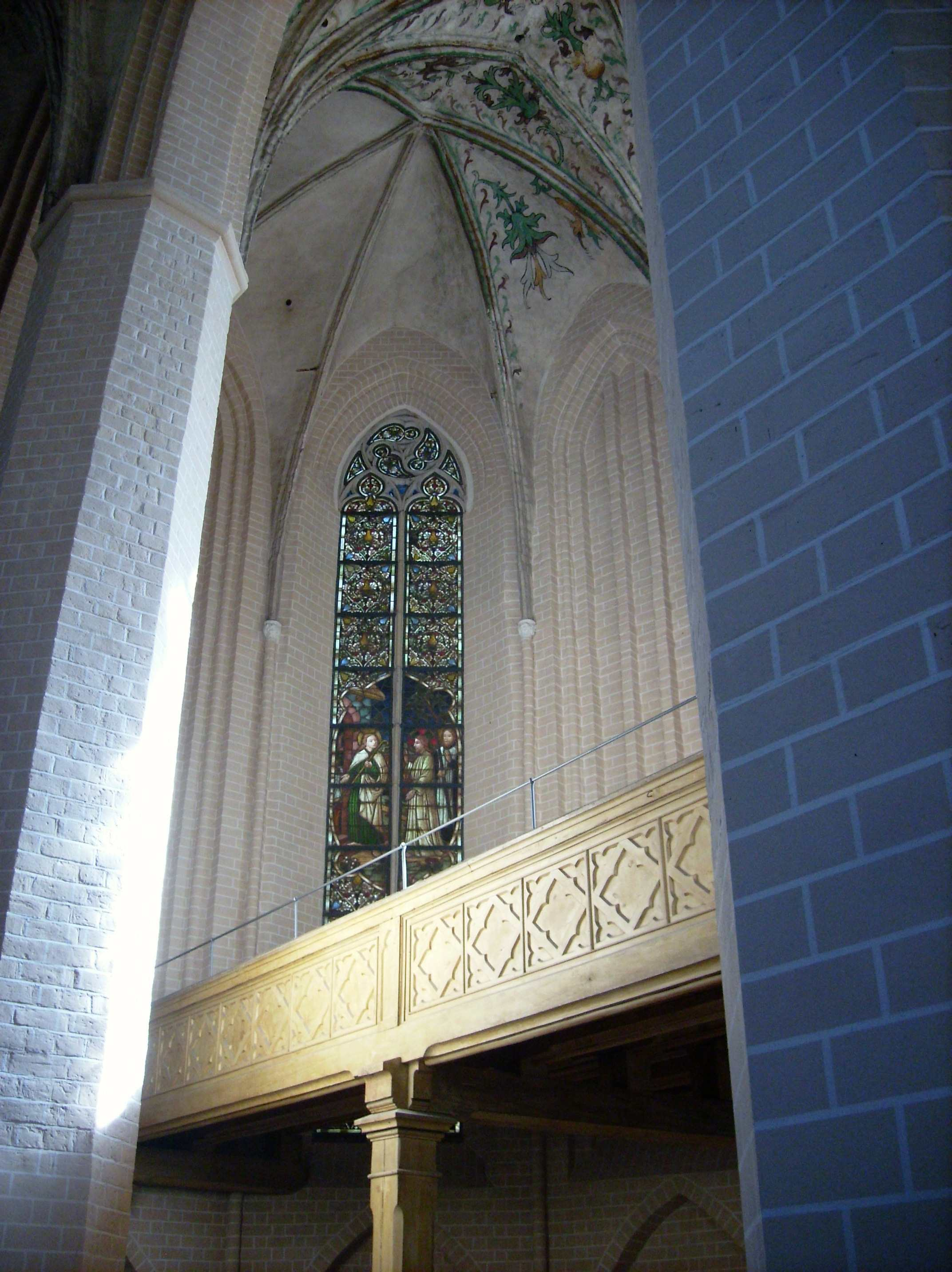 Gallery in Saint Mary's Church, Herzberg/Elster (Elbe-Elster district, Brandenburg)